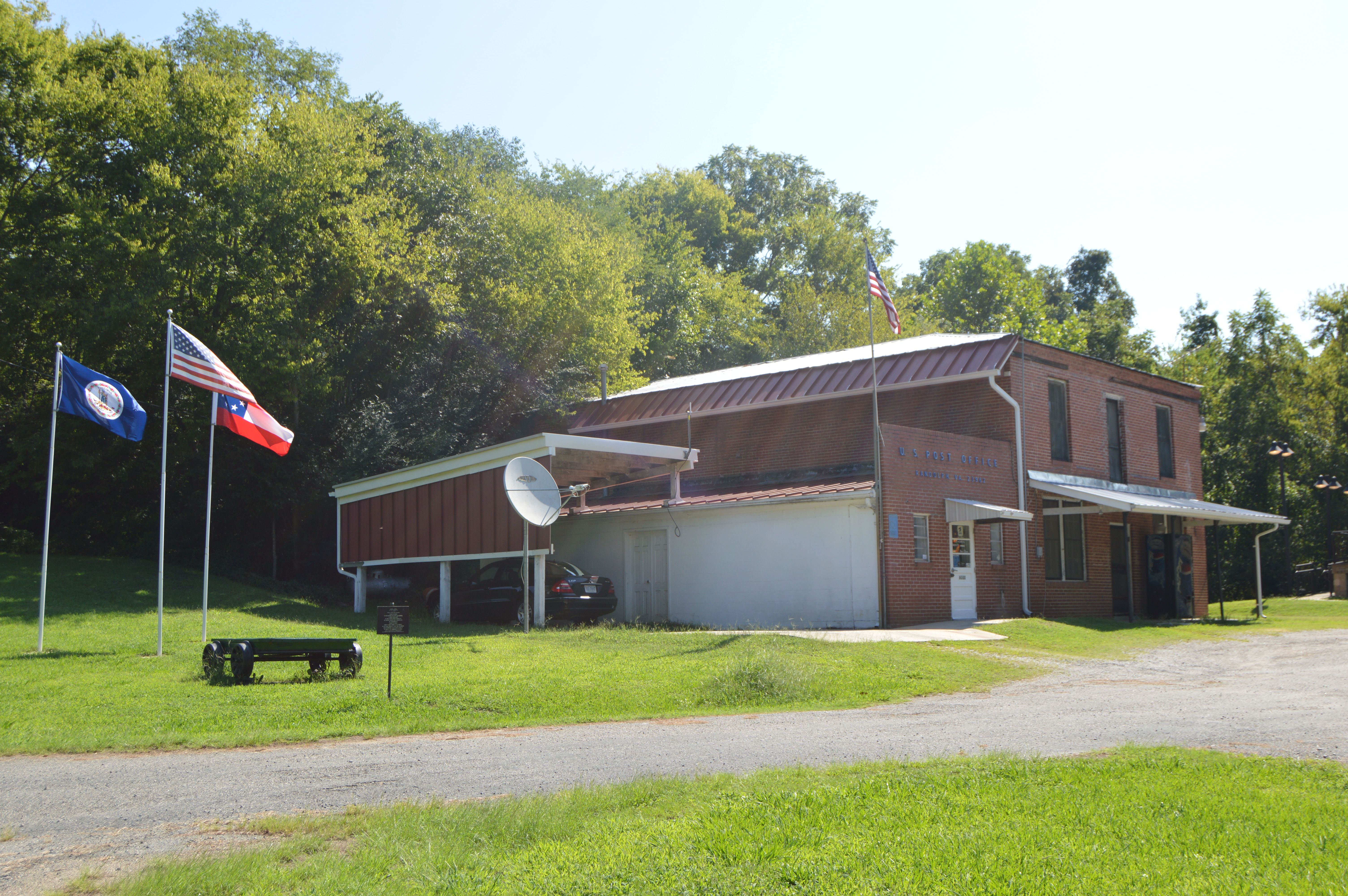 Two buildings, including the post office, on Mulberry Hill Road at Randolph in Charlotte County, Virginia, United States. At left, three flagpoles fly the Virginia, United States, and Confederate States flags. Unusually, this is the Confederate national flag; perhaps the result of rising intolerance toward the "normal" Confederate battle flag.